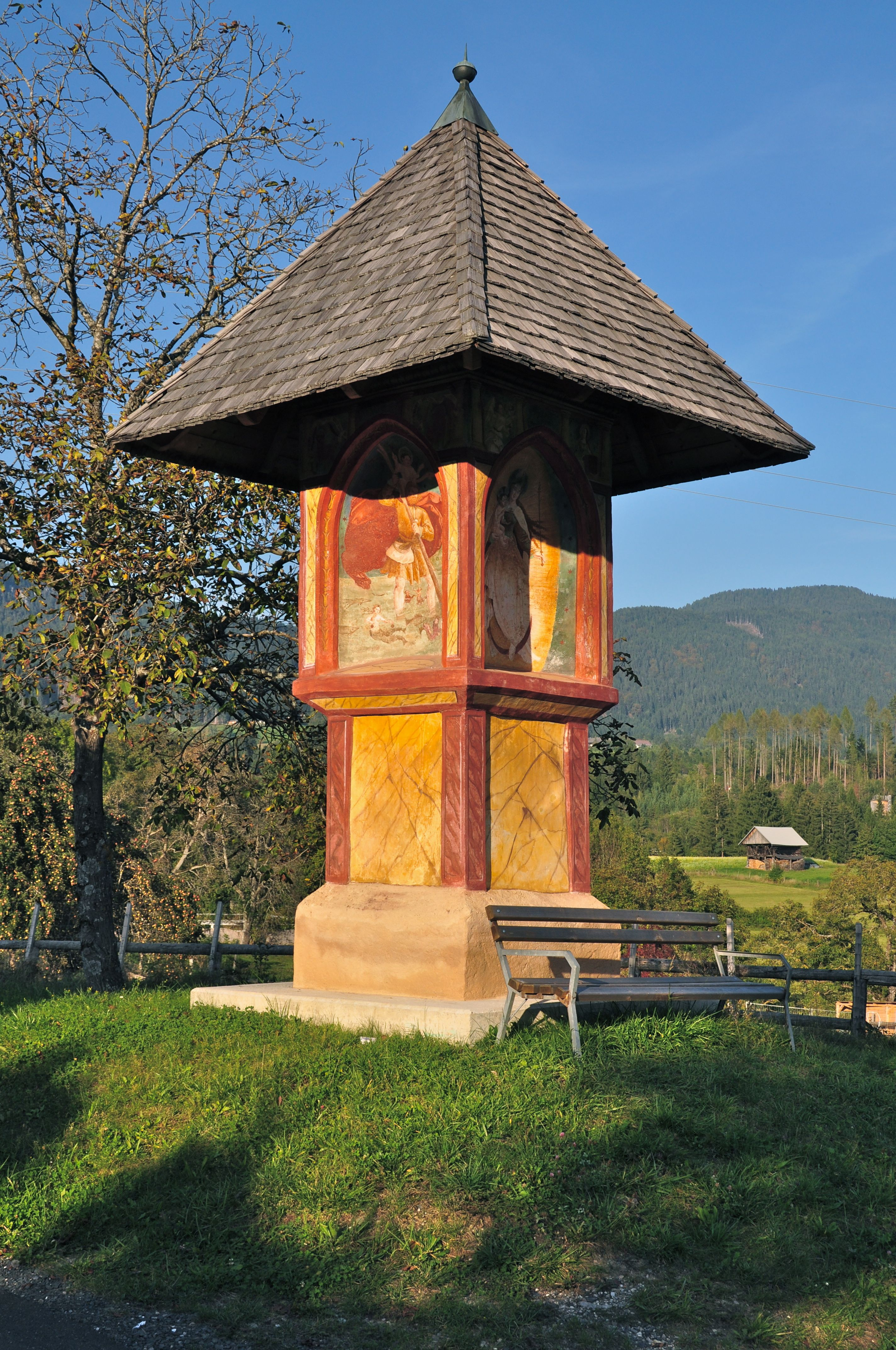 Late Gothic alcove wayside shrine "Poor Sinner`s Cross" in Sankt Stefan, municipality Sankt Stefan im Gailtal, district Hermagor, Carinthia / Austria / EU